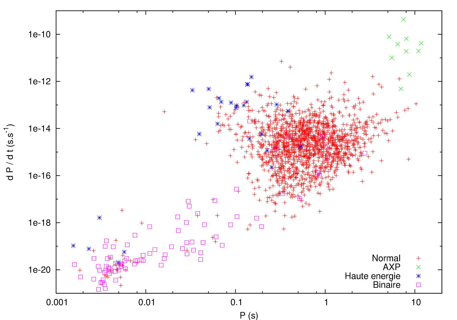 P-Pdot diagram for known pulsars, highlighting AXP's, high energy emission pulsars and binay pulsars